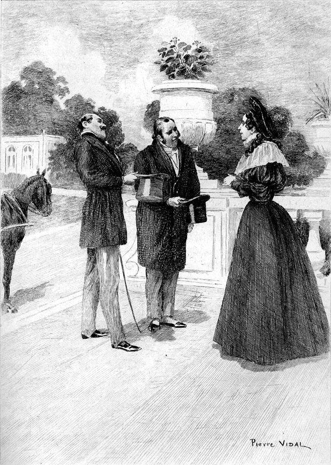 Title page of Honoré de Balzac's The Muse of the Department (1837).